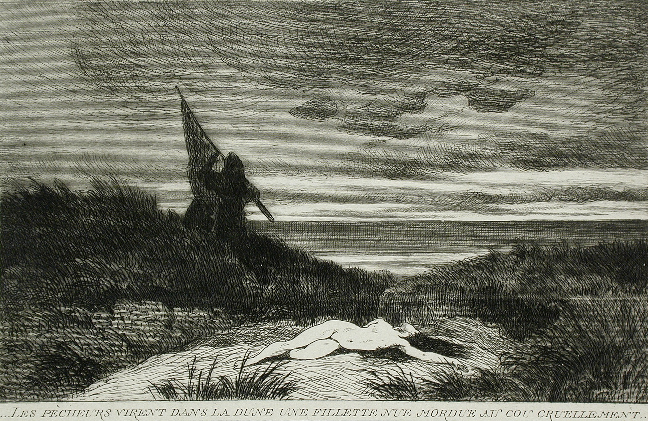 Belgium, 1867 Series: La Légende et les Aventures d'Uylenspiegel et de Lamme Goedzak Prints; etchings Etching Gift of Michael G. Wilson (M.79.233.21) Prints and Drawings